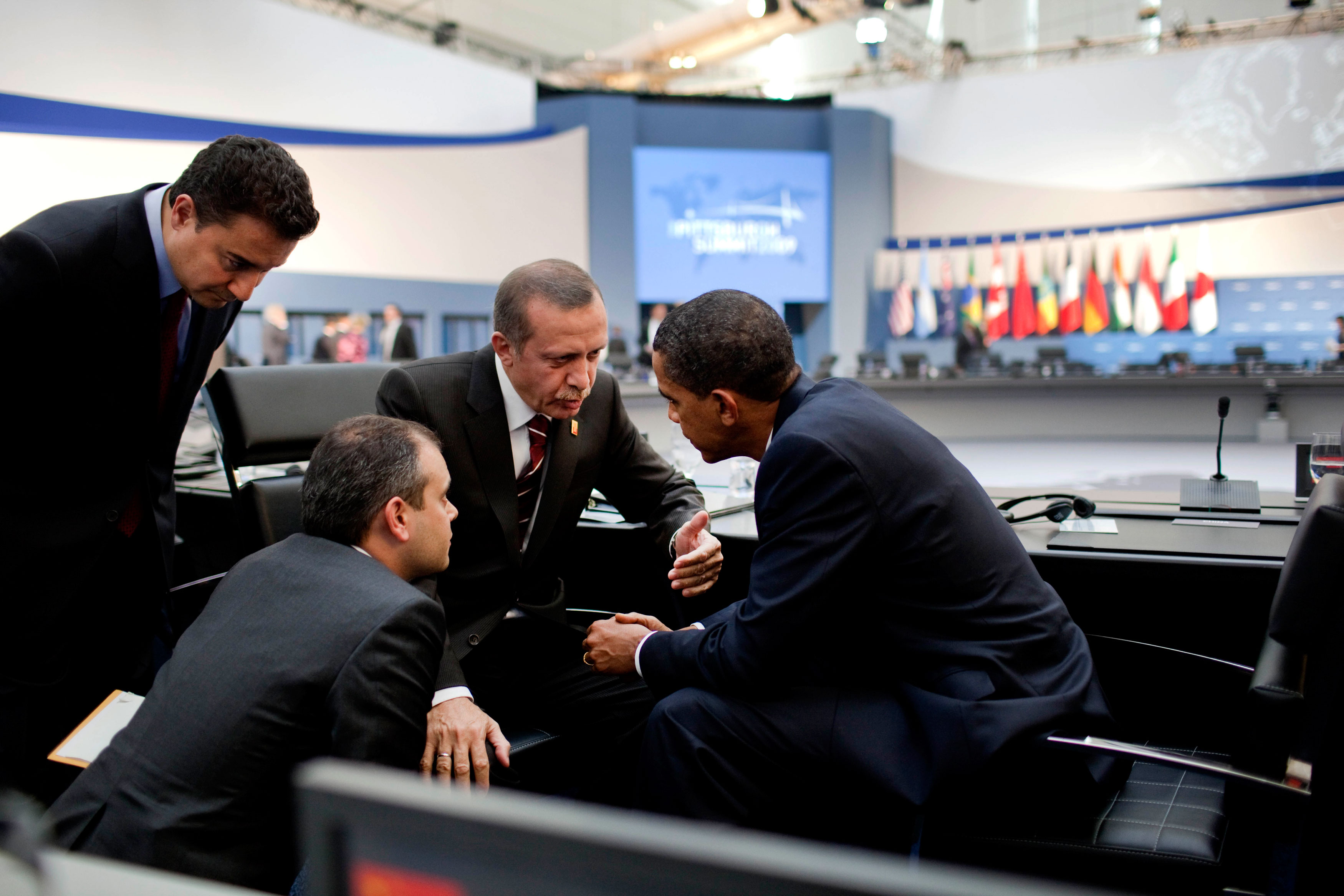 President Barack Obama and Prime Minister Recep Tayyip Erdogan following the G-20 Summit afternoon session in Pittsburgh, Pa., Sept. 25, 2009.